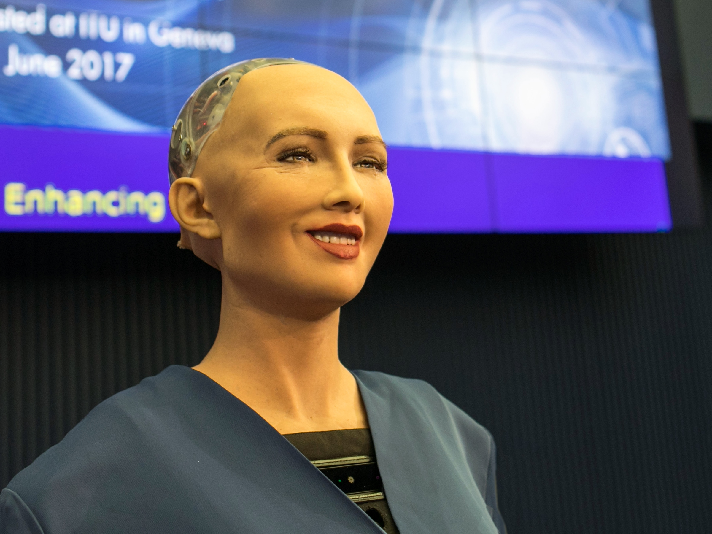 Sophia, Hanson Robotics Ltd., speaking at the AI for GOOD Global Summit, ITU, Geneva, Switzerland